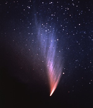 Авар: Cropped photograph of Comet West in early March 1976. Picture captured by Peter Stättmayer.